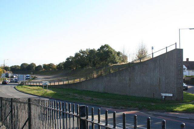 Brooklands circuit The remains of the old banked motor racing track. A section has been removed to allow a road through !